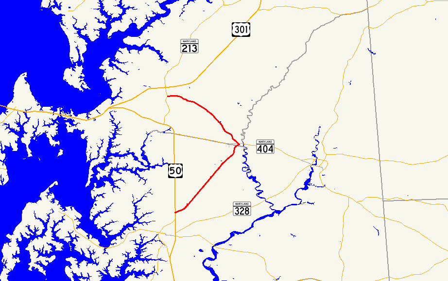 Map of Maryland Route 309